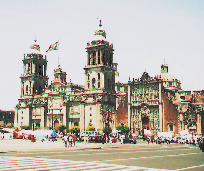 Mexico City, Cathedral.